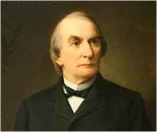 John Plankinton, circa 1891